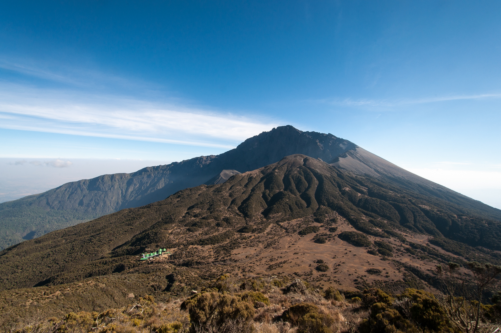 can't believe we climbed it in one night